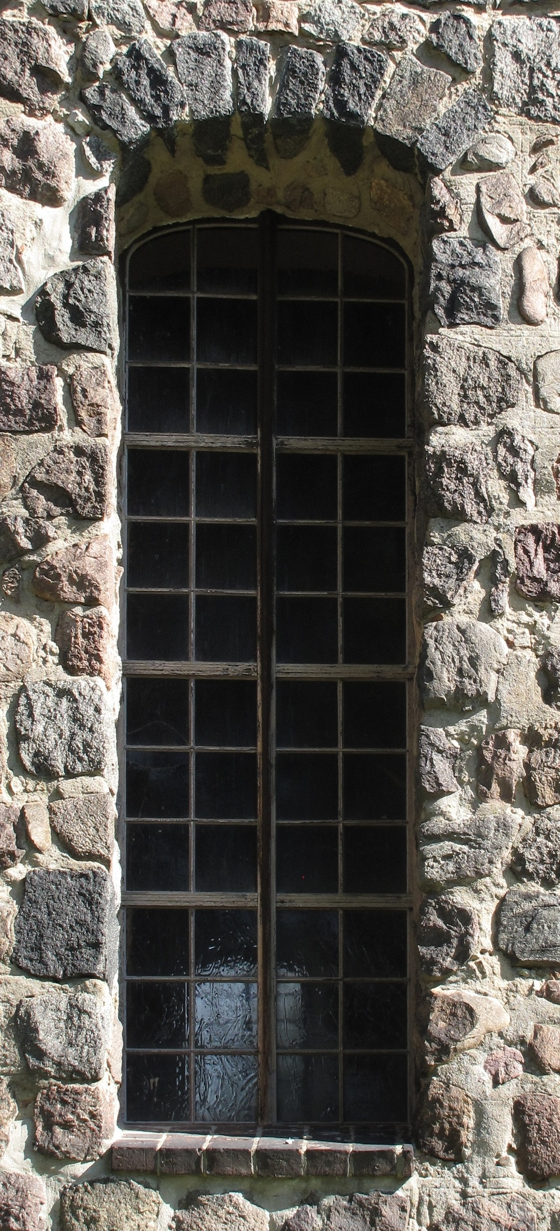 The Sankt-Annen-Kirche Zinndorf is a listed village and Fieldstone church in Zinndorf, a village of the municipality Rehfelde in the District Märkisch-Oderland, Brandenburg, Germany. The church was built in the 13th-century.